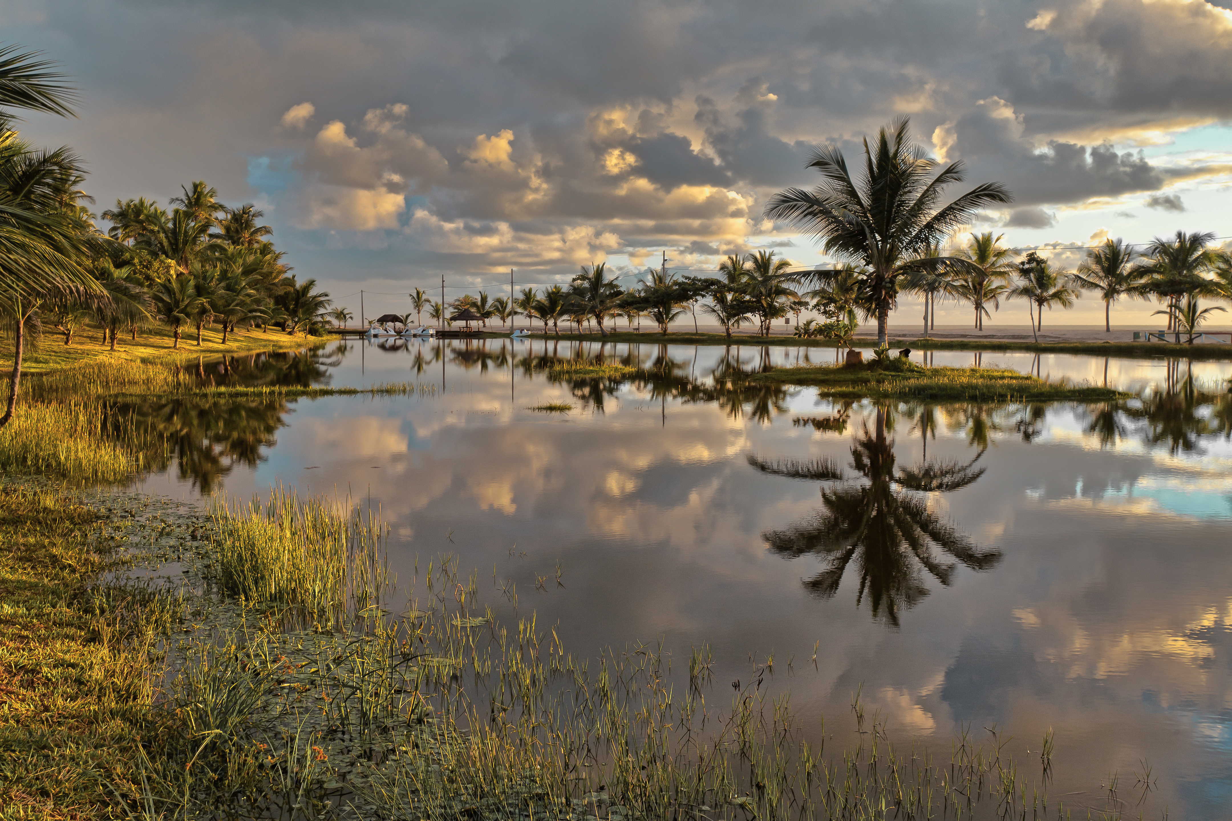 Early morning on whaling coast, Bahia